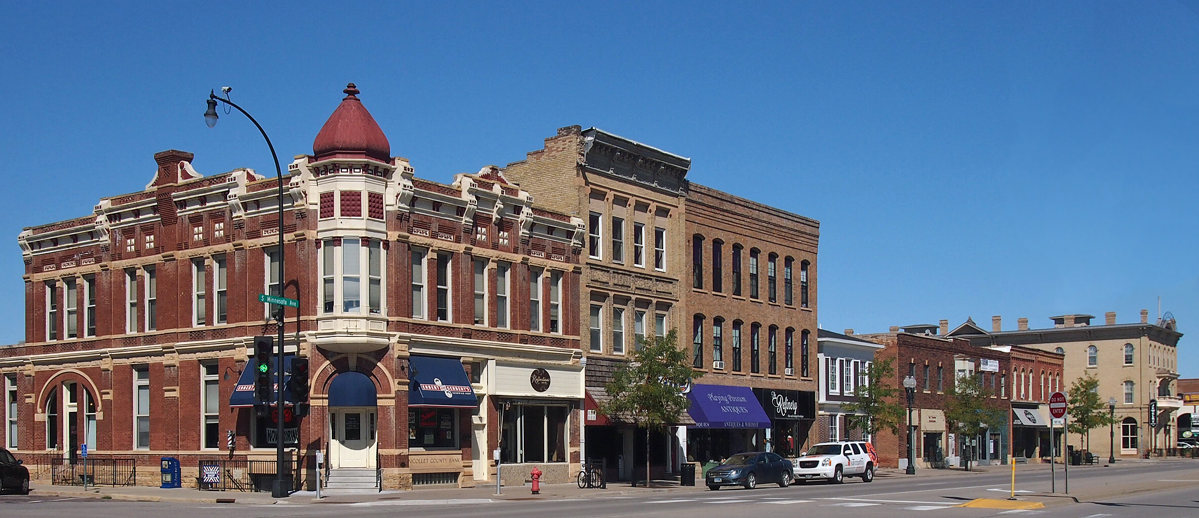 200 block of Minnesota Ave S, St Peter, Minnesota, USA. Viewed from the south.